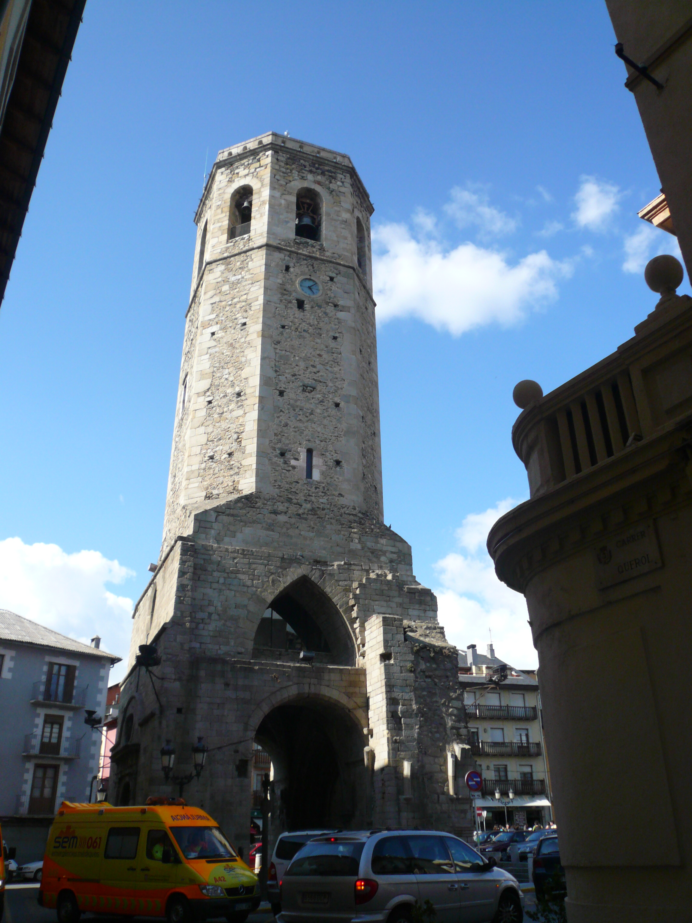 Bell tower in Puigcerdà. The church was distroyed in 1936 during spanish civil war. Object location42° 25′ 57.27″ N, 1° 55′ 34.57″ E